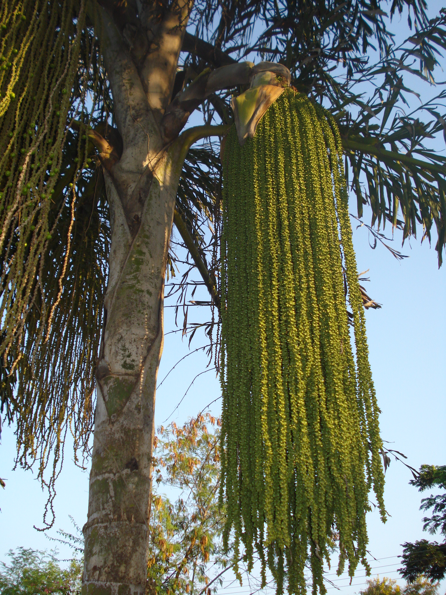 Fishtail palm tree in Nandan Kanan Park, Char Imli Bhopal, Madhya Pradesh, India